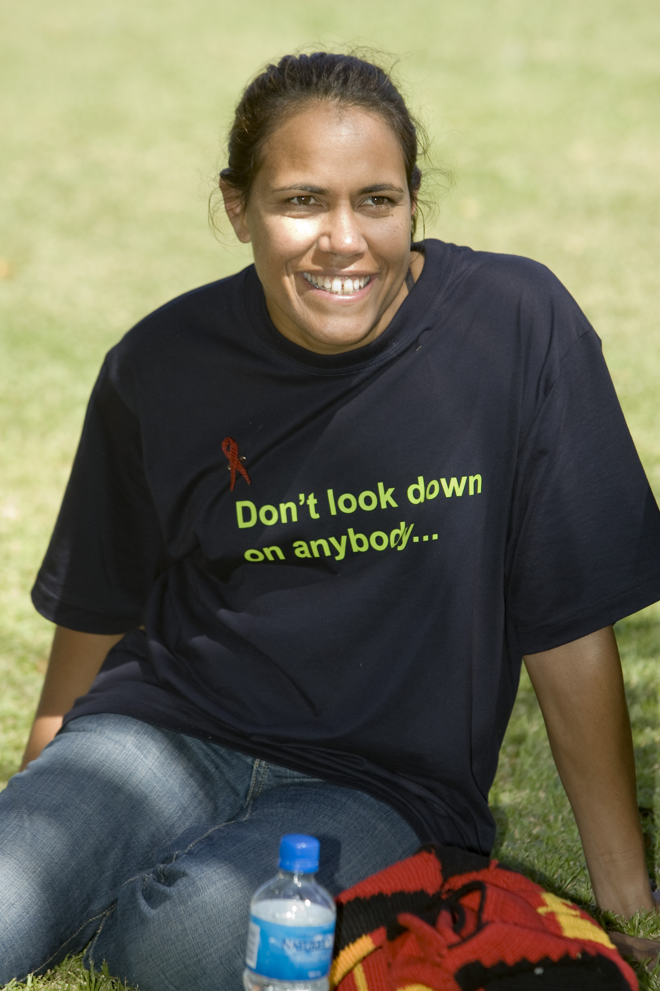 Cathy Freeman wears a t-shirt with the message 'Don't look down on anybody unless you are helping them up.' The Australian Olympian was a guest of the Australian Government's aid program to PNG in May 2008, where she met with people living with HIV and AIDS, survivors of domestic violence and disabled athletes at a games day in Port Moresby.